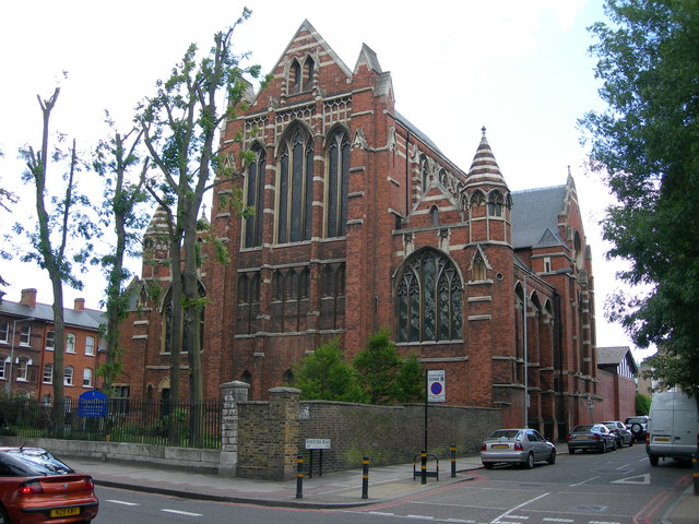 Corpus Christi Catholic Church, Brixton Hill The church is between Trent Road and Horsford Road, SW2.